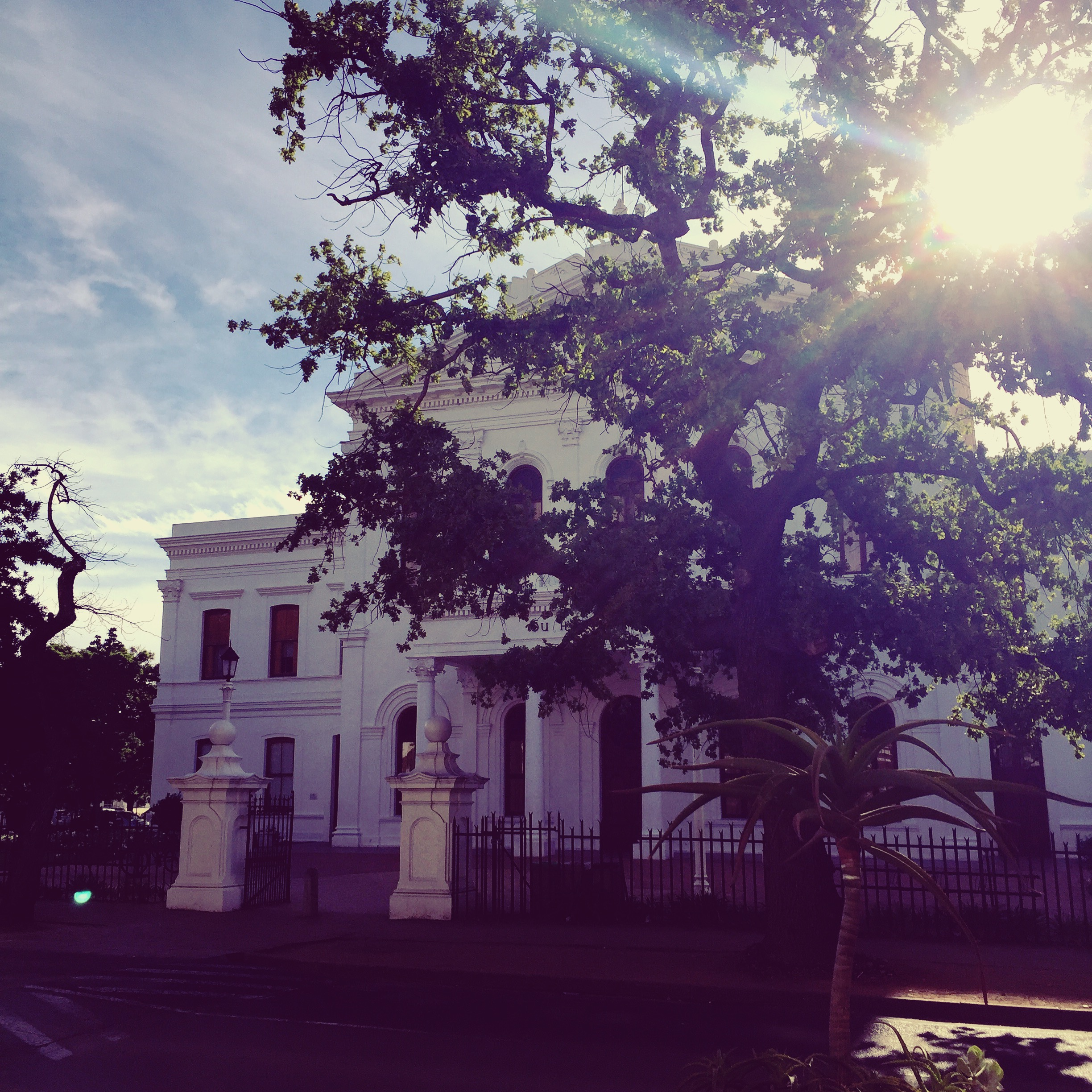 Stellenbosch University, Faculty of Law, Ou Hoofgebou